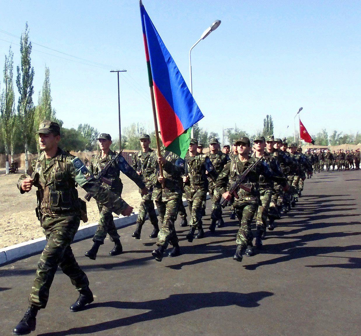 Exercise participants from Azerbaijan pass in review during CENTRASBAT (Central Asian Peacekeeping Battalion) 2000 opening ceremonies on September 13th, 2000. CENTRASBAT 2000 is a multi-national peacekeeping and humanitarian relief exercise sponsored by United States Central Command (U.S. CENTCOM) and hosted by former Soviet Republic Kazakhstan in Central Asia, Sep. 11-20, 2000. Exercise participants include approximately 300 U.S. troops including personnel from U.S. CENTCOM, from the U.S. Army's 82nd Airborne Division, Fort Bragg, North Carolina, and 5th Special Forces Group, Fort Campbell, Kentucky, and 300 Kazakhstan soldiers. Other participating nations include: Uzbekistan, Kyrgyzstan, United Kingdom, Turkey, Russia, Georgia, Azerbaijan and Mongolia. CENTRASBAT originated in 1996, and was concepted to form a battalion of soldiers from the former Soviet Republics of Kazakhstan, Kyrgyzstan and Uzbekistan to serve as a key component in developing a regional security and cooperation structure. CENTRASBAT 2000 will test U.S. and Central Asian units combat readiness and ability to conduct peacekeeping and humanitarian operations, as well as develop and build cooperative relationships between the respective states and assist in laying the foundation for future peacekeeping and humanitarian operations.